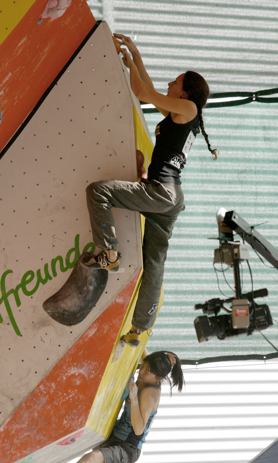 Egle Kirdulyte and Risa Ota during qualifications at the IFSC Boulder Worldcup Vienna 2010.